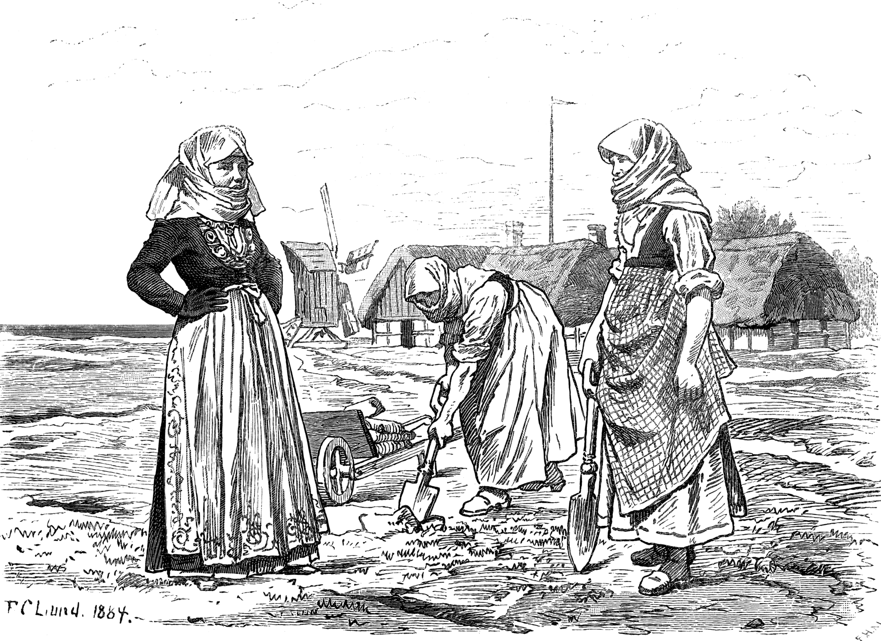 Women from the island Læsø. On this island, the farms went in succession "on the distaff side".